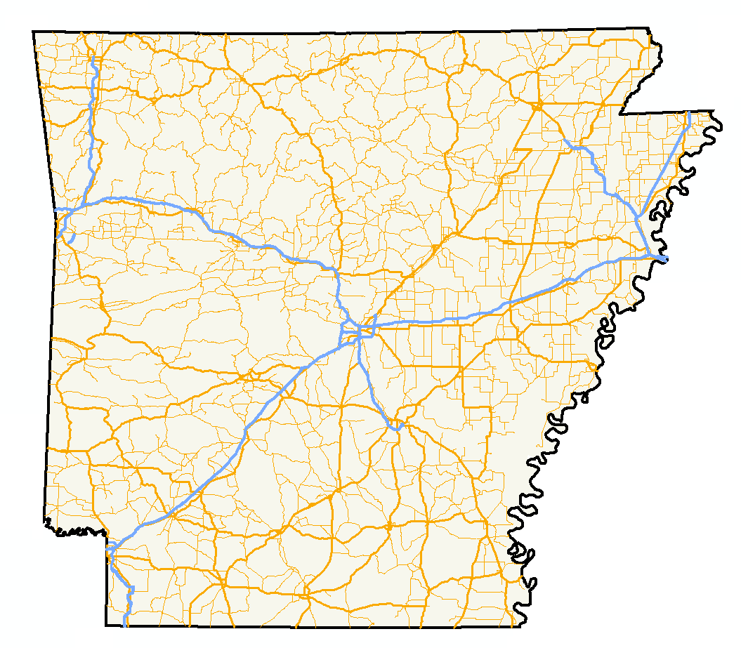 Map of the Interstate highways, US Routes, and Arkansas state highways in the state of Arkansas. Also includes national forests (green), military installations (gray) and county lines.